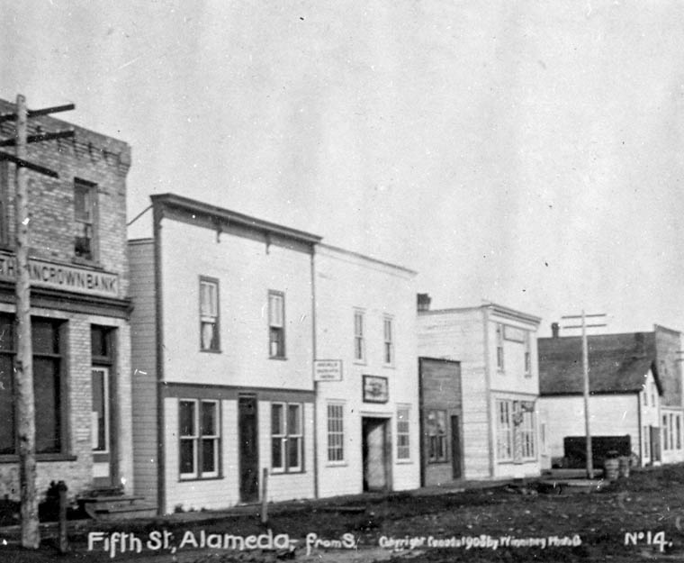 Fifth Street, Alameda, Saskatchewan, from the south.